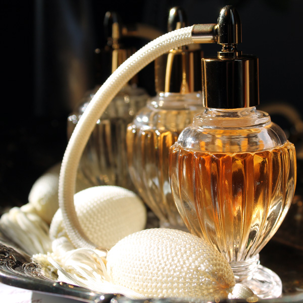 Bulb atomizers filled with perfume. Travel size perfume atomizers can be found here